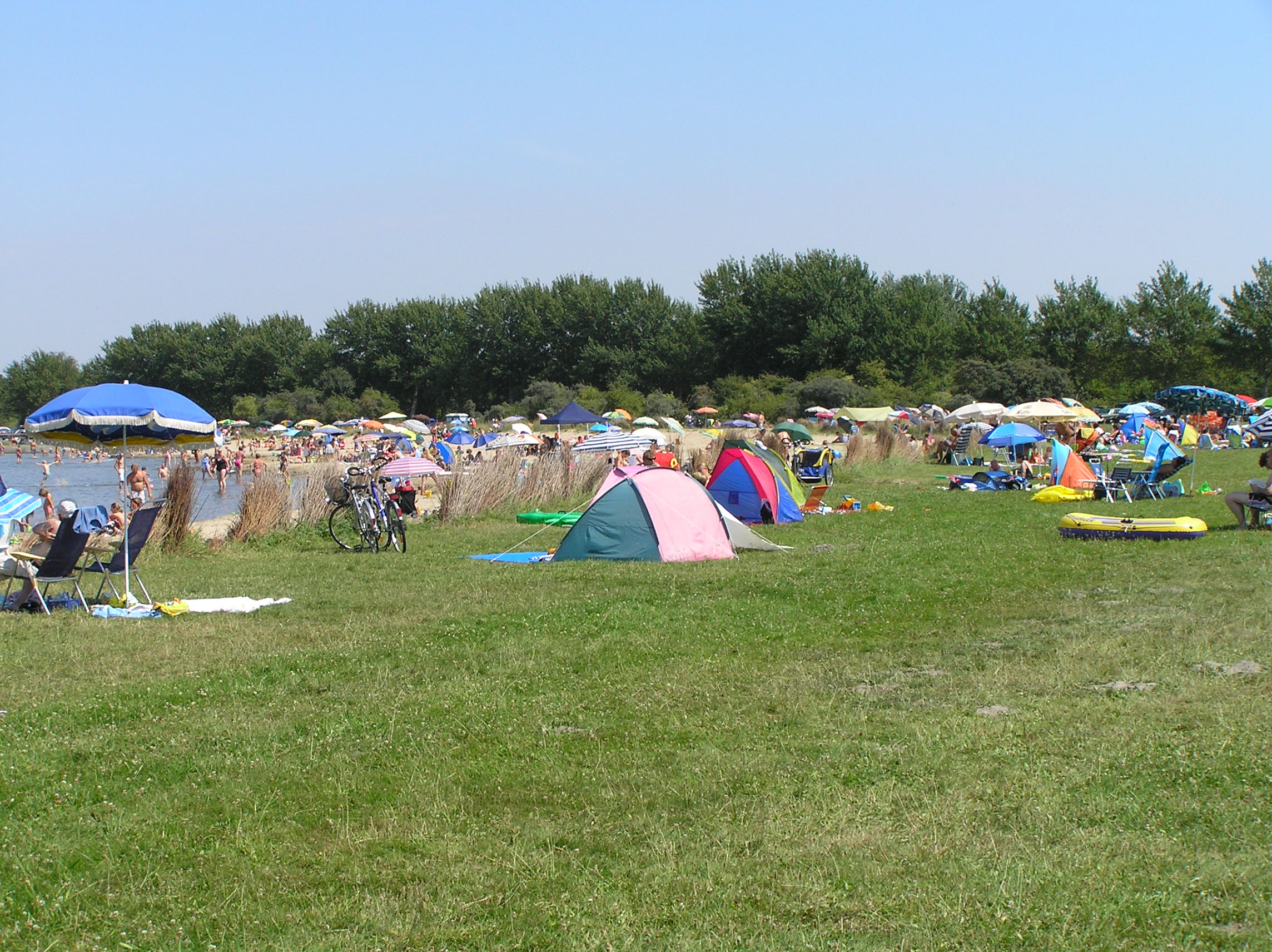 Recreation at Schelphoek near Wolphaartsdijk